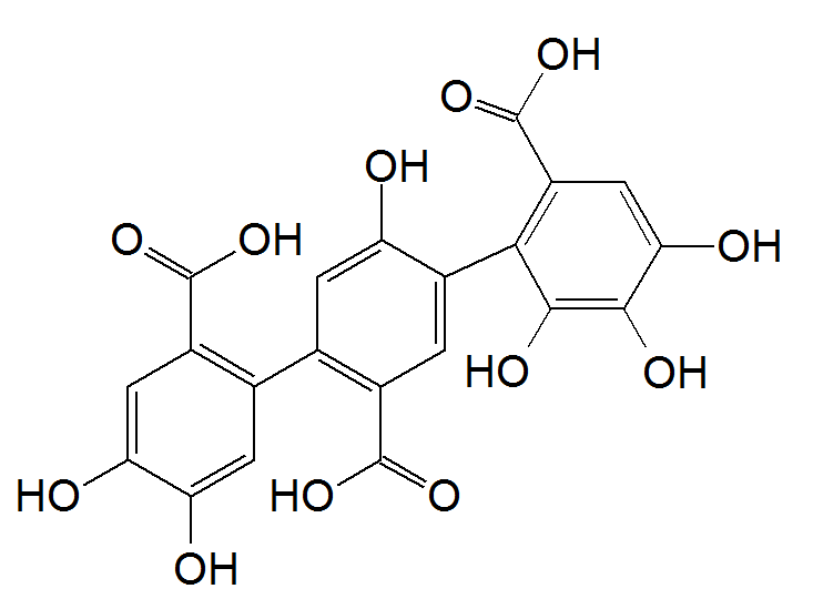 Chemical structure of flavogallonic acid